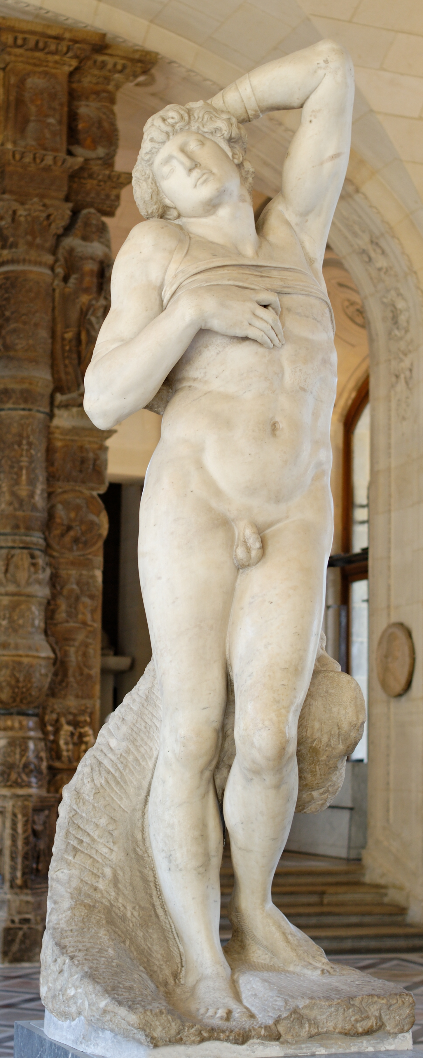 Detail from the Dying slave. Marble, 1513-1515. Commissioned in 1505 for the tomb of Pope Julius II.